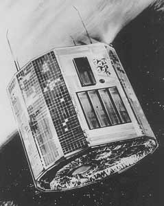 Ariel-5 satellite.